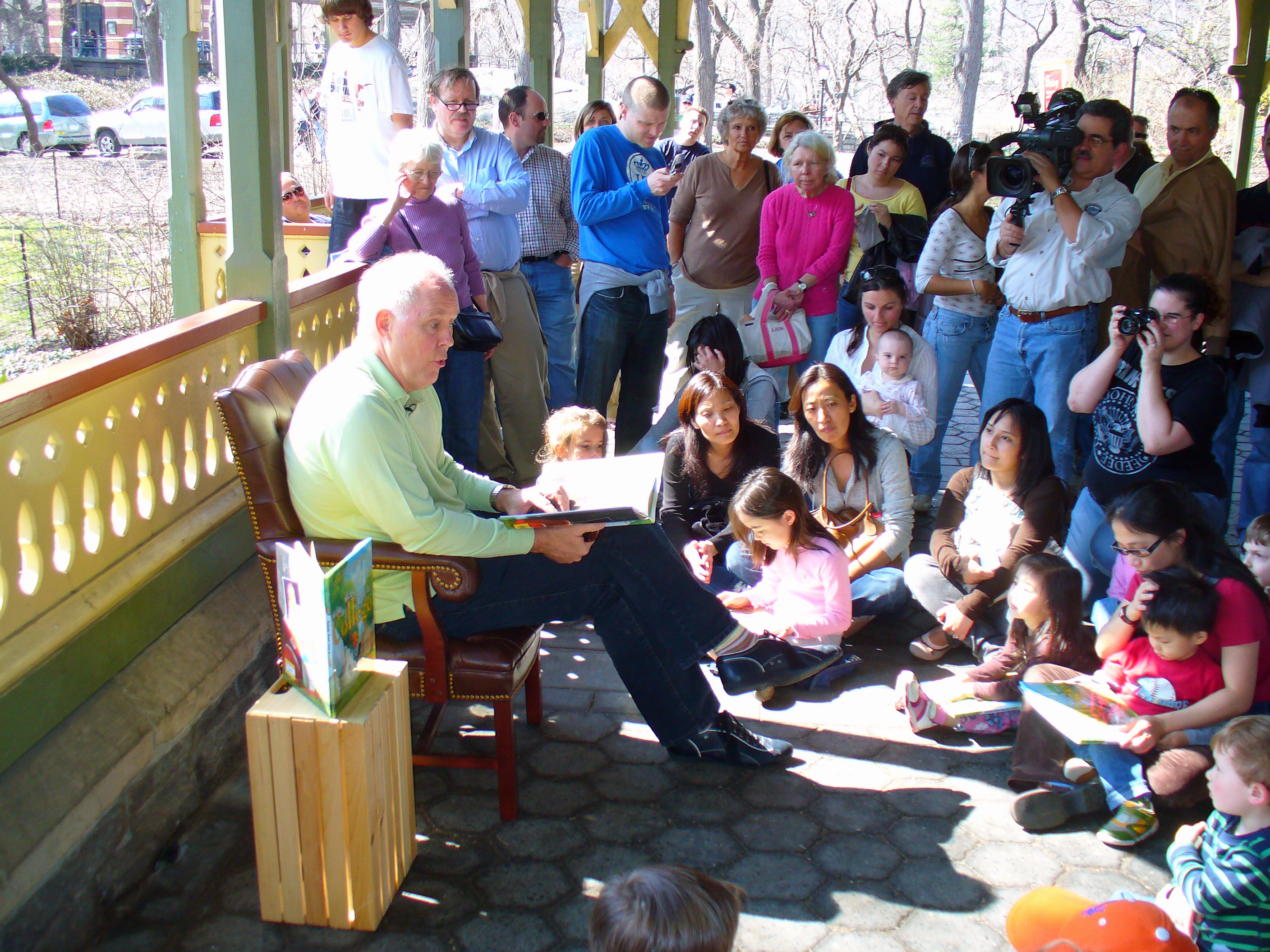 John Lithgow 7 by David Shankbone